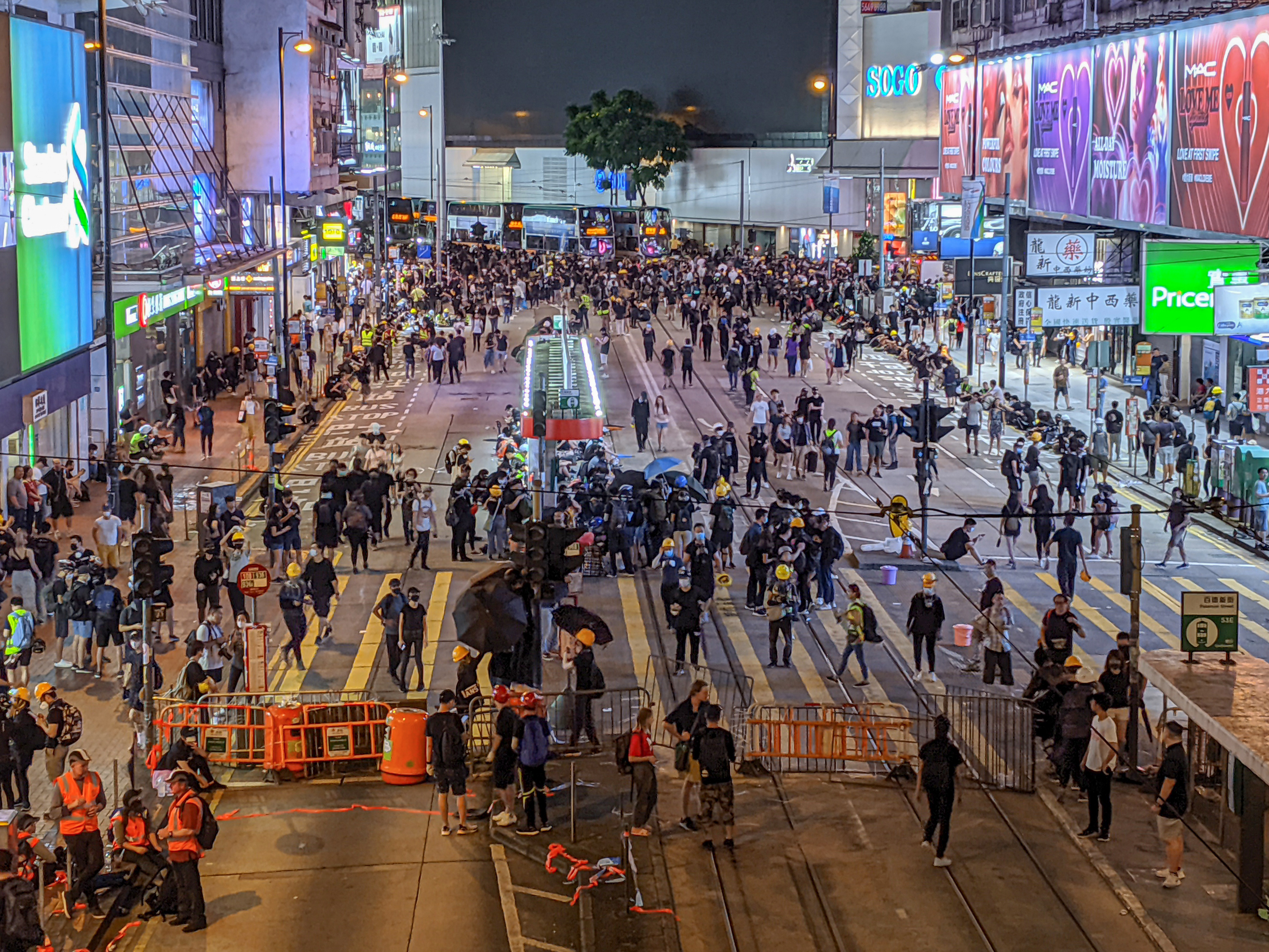 Protests in Hong Kong on 4 August, for the extradition bill and police excessive force.